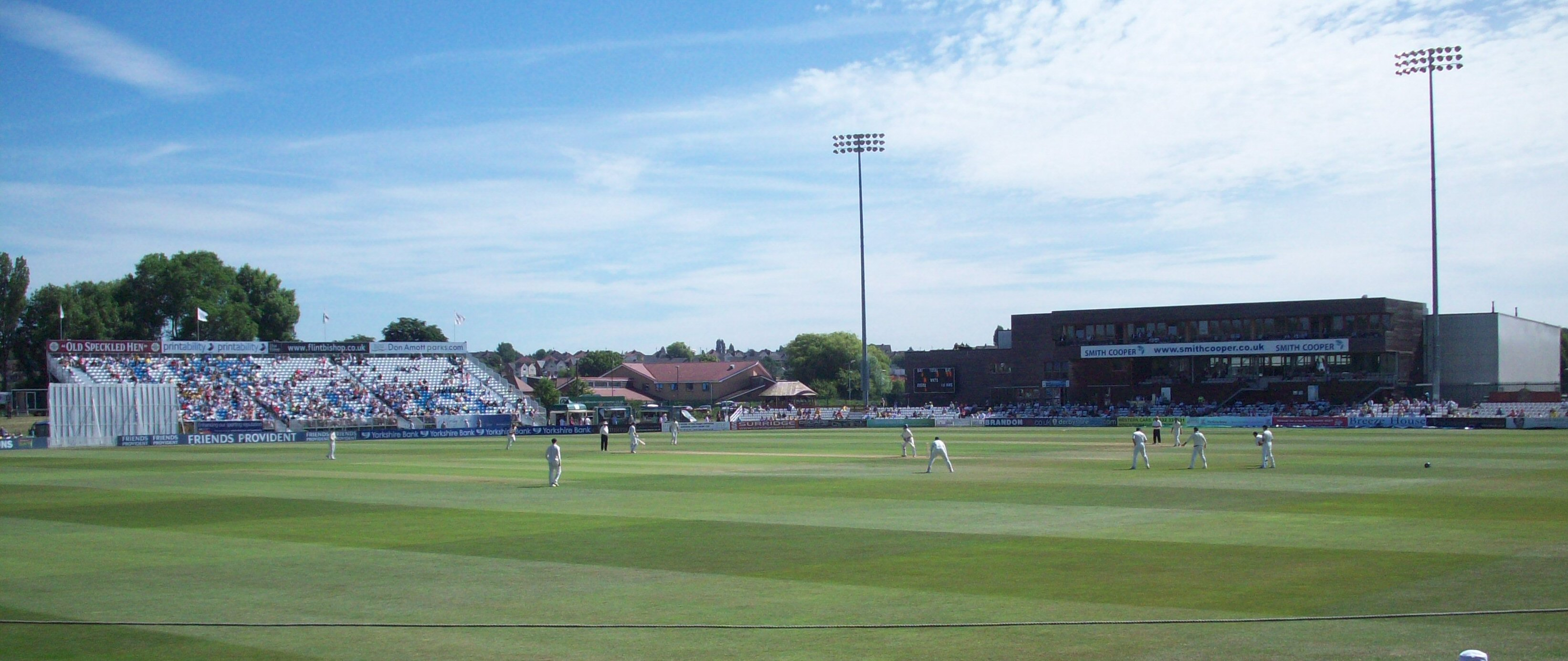 Photo taken by myself - C Manning - 9th July 2010